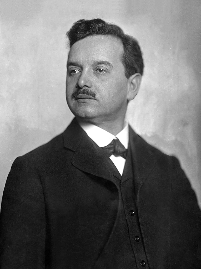 Max Dauthendey